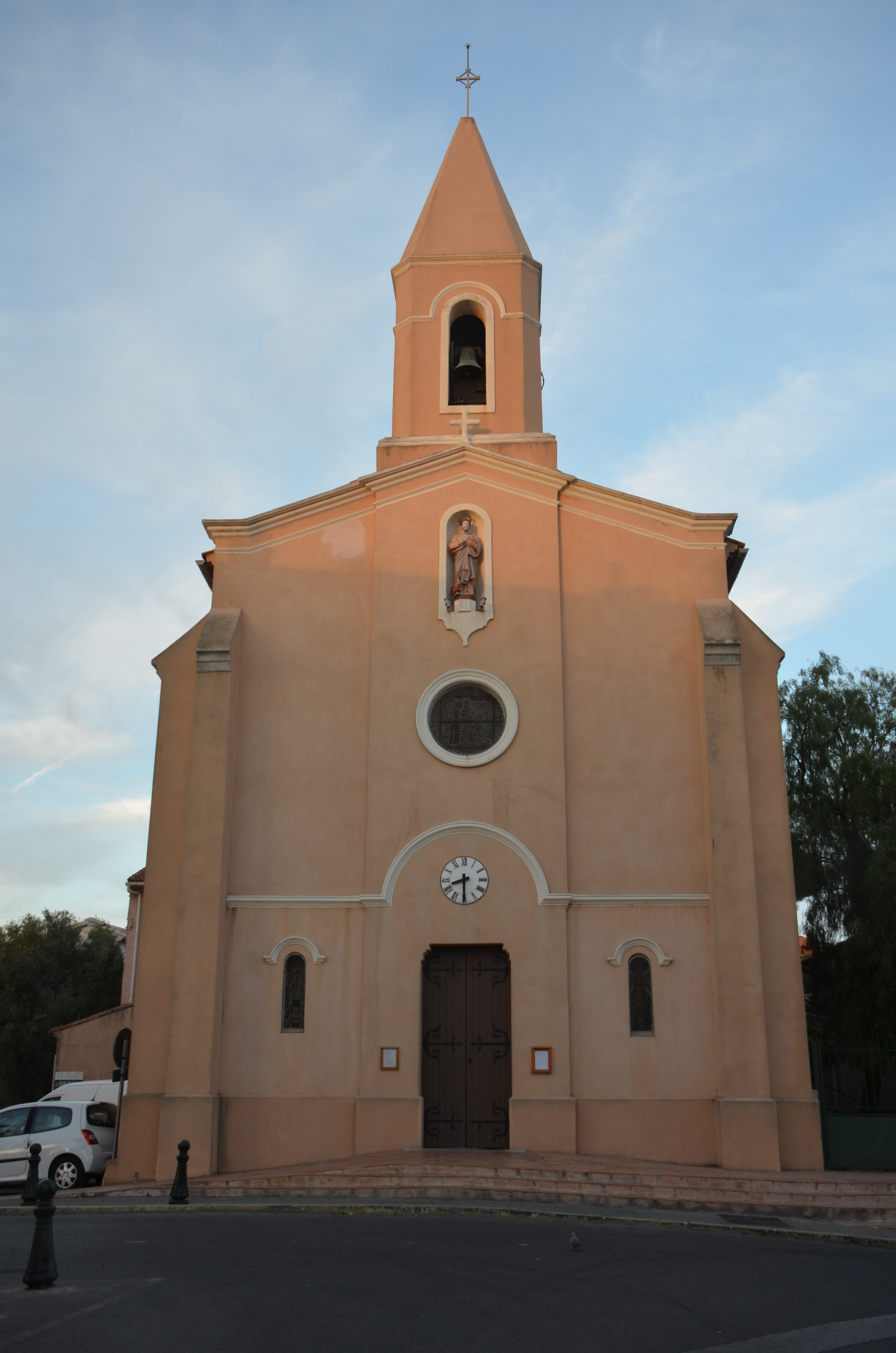 Church of Giens in the eveningsunglowing